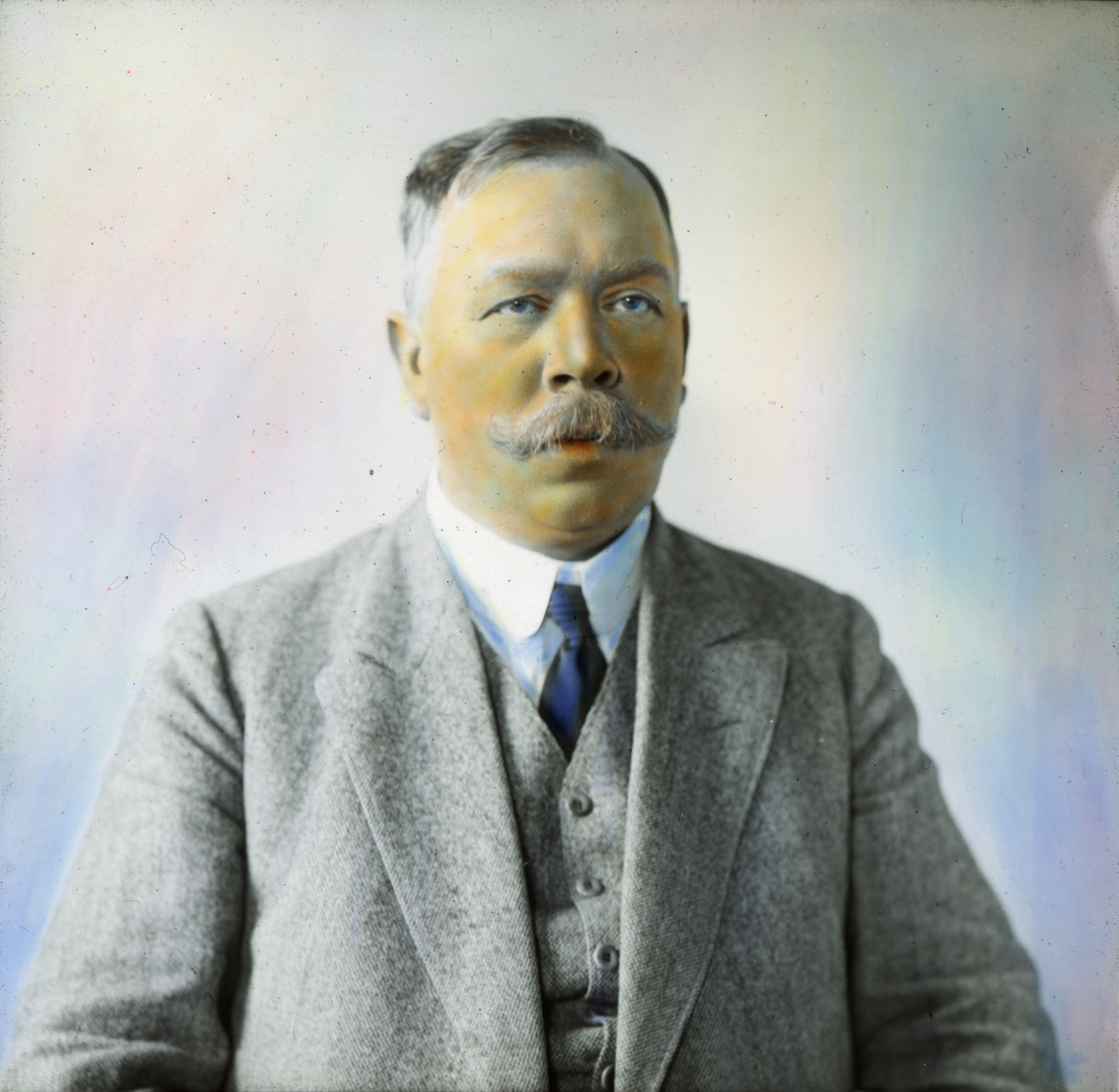 Håndkolorert dias. Portrett av polarforskeren Carsten Borchgrevink.